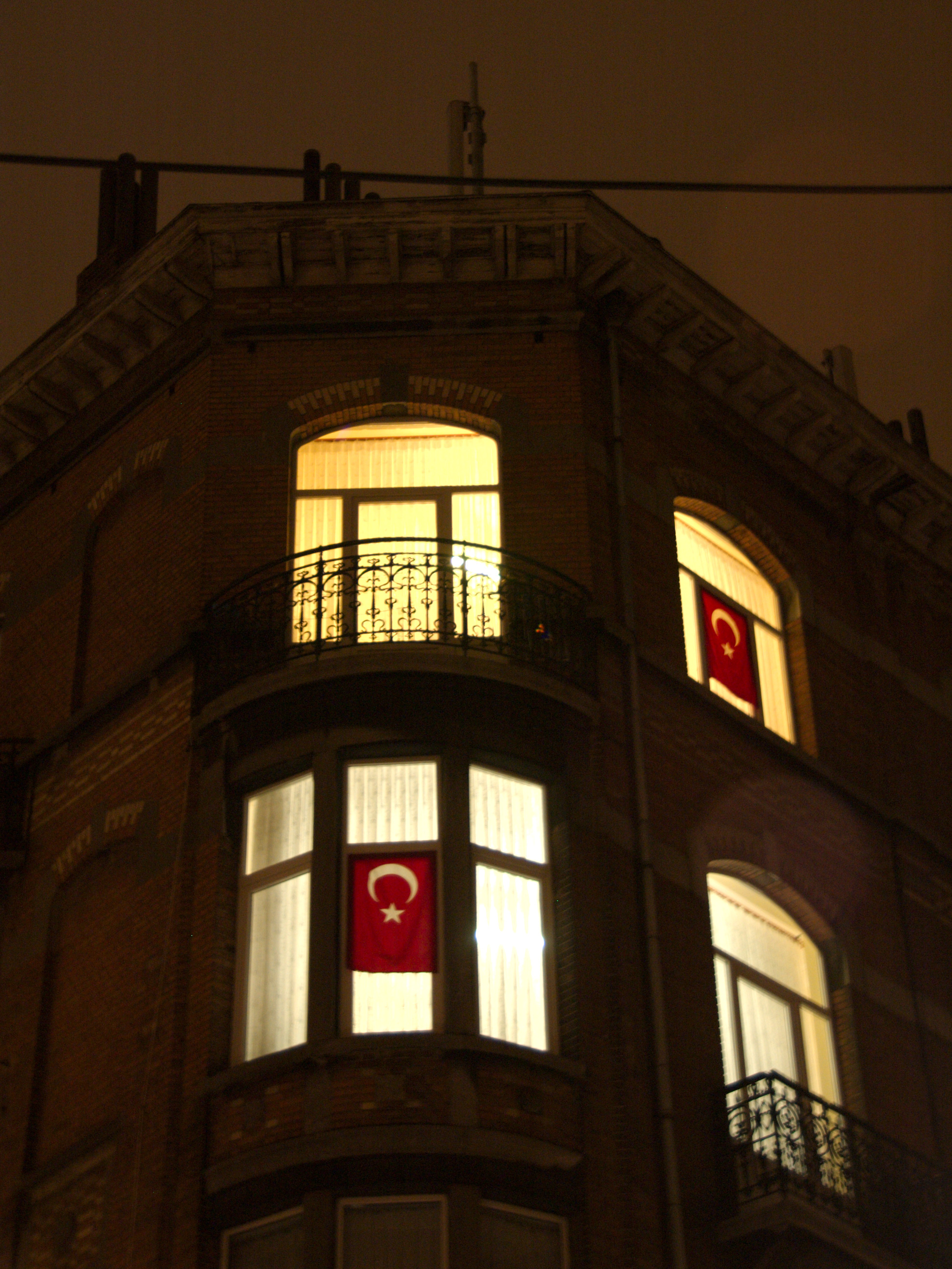 Turkish flags in the Brussels town of Sint-Joost-ten-Node. There are lots of Turkish flags in Brussels these days, in support of the Turkish army in its fight against Kurdish rebels.